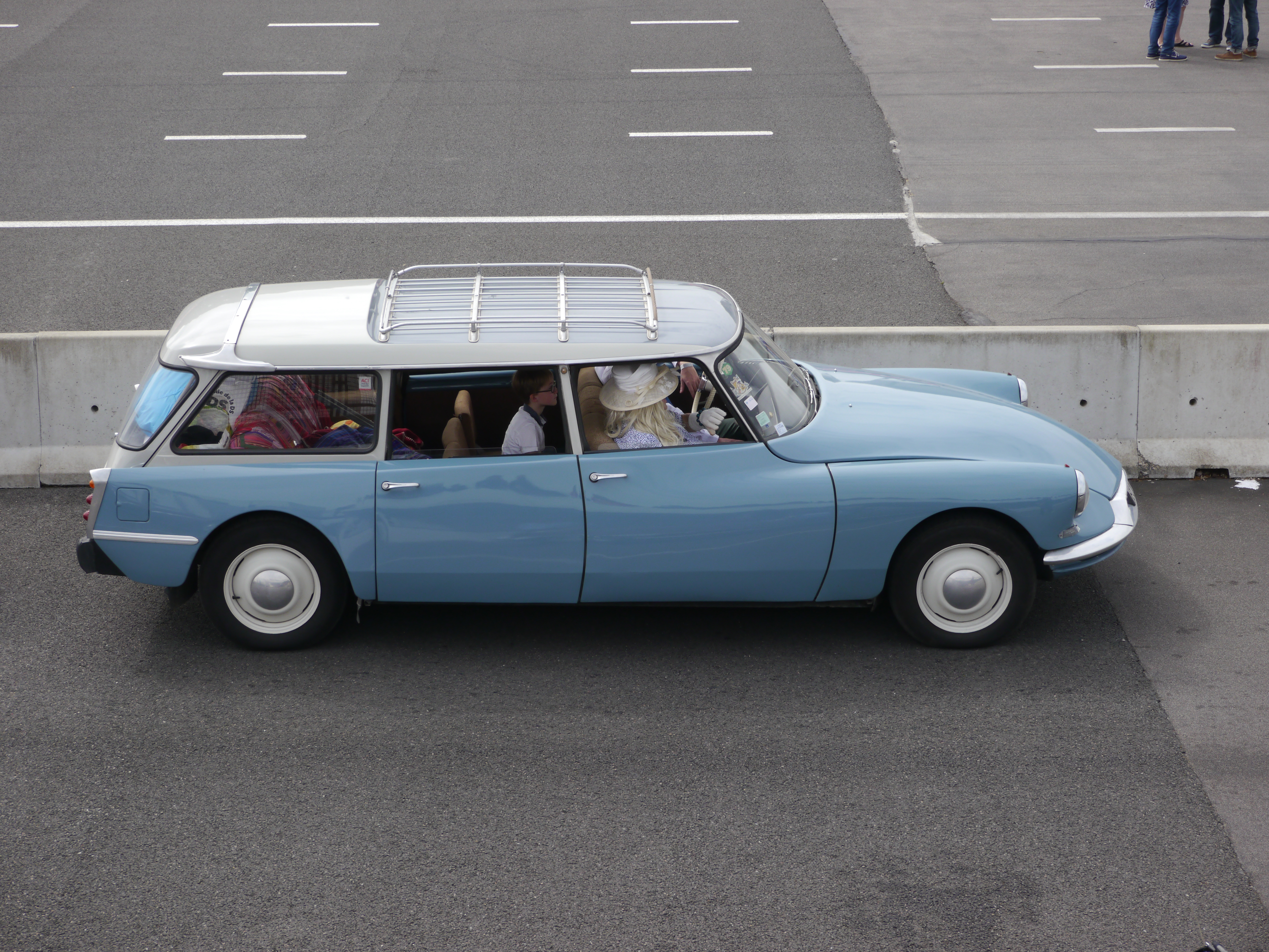 Citroën DS Break